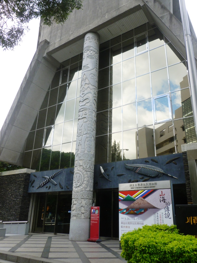 The front entrance of the Shung Ye Museum of Formosan Aborigines. The front entrance of this remarkable building is dominated by a 13.2 metres high carved granite totem pole.